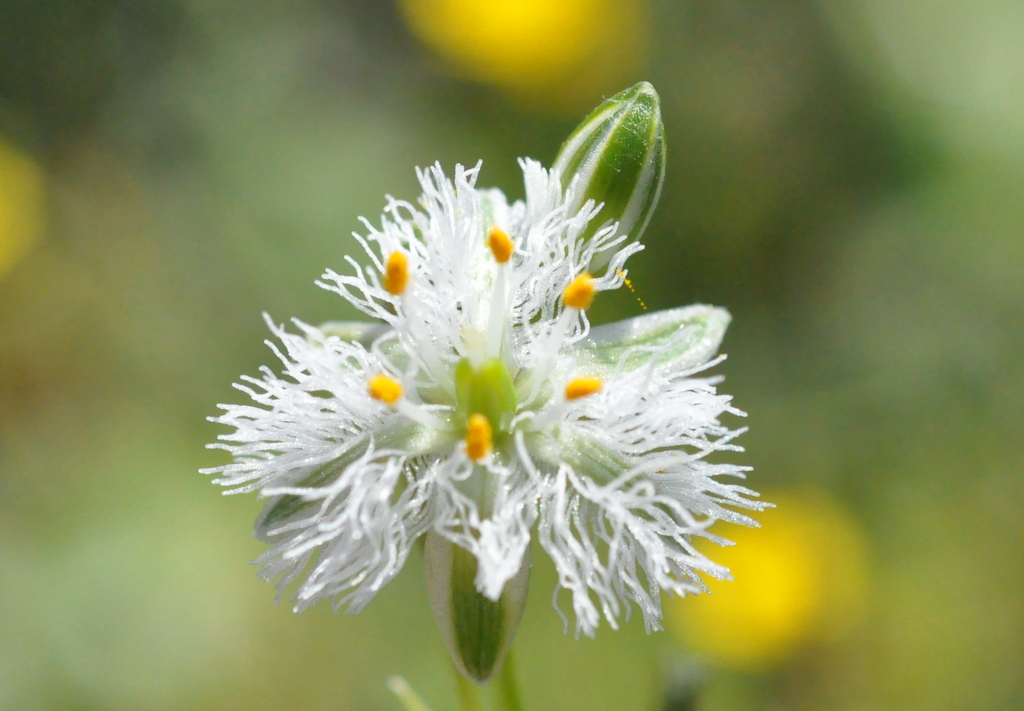 Trichopetalum plumosum (Flor de la plumilla) from Champa, Paine commune, Region Metropolitana, Chile